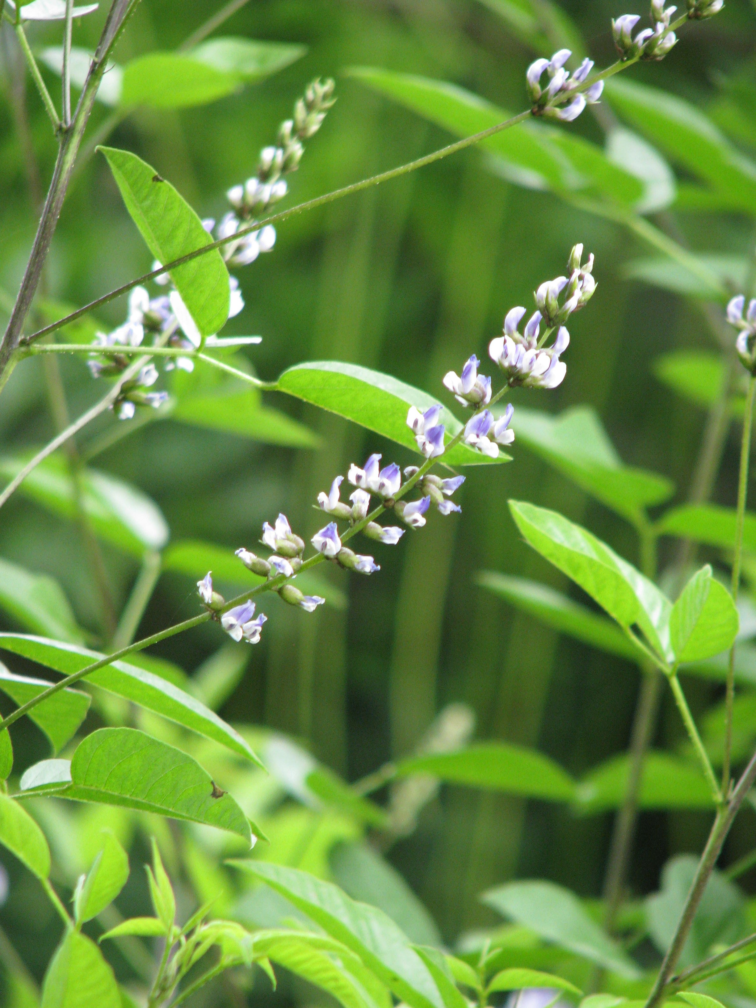 A remarkably pretty shrub from Chile. This has gone uprotected through the last few winters.